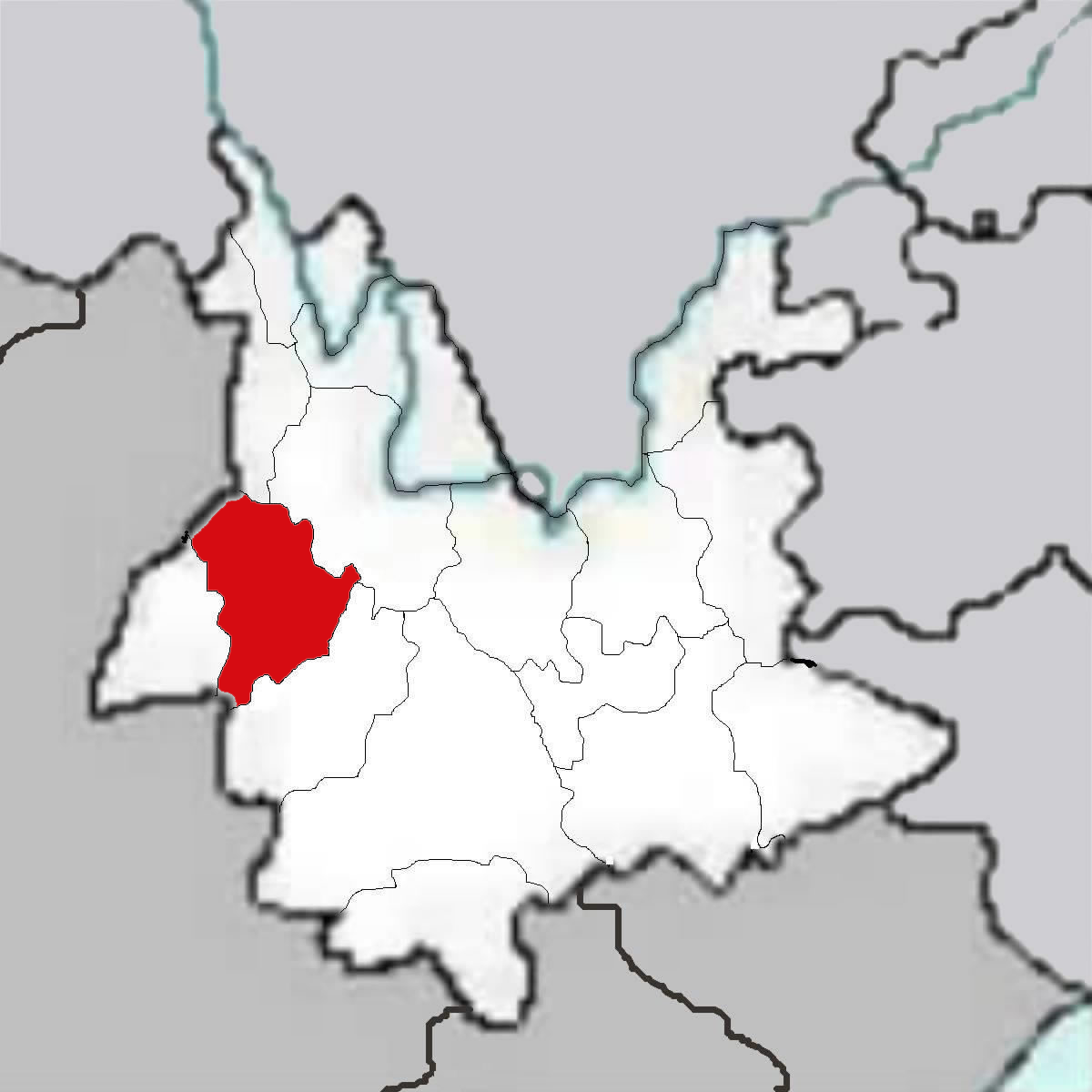 Yunan(云南) Province of China